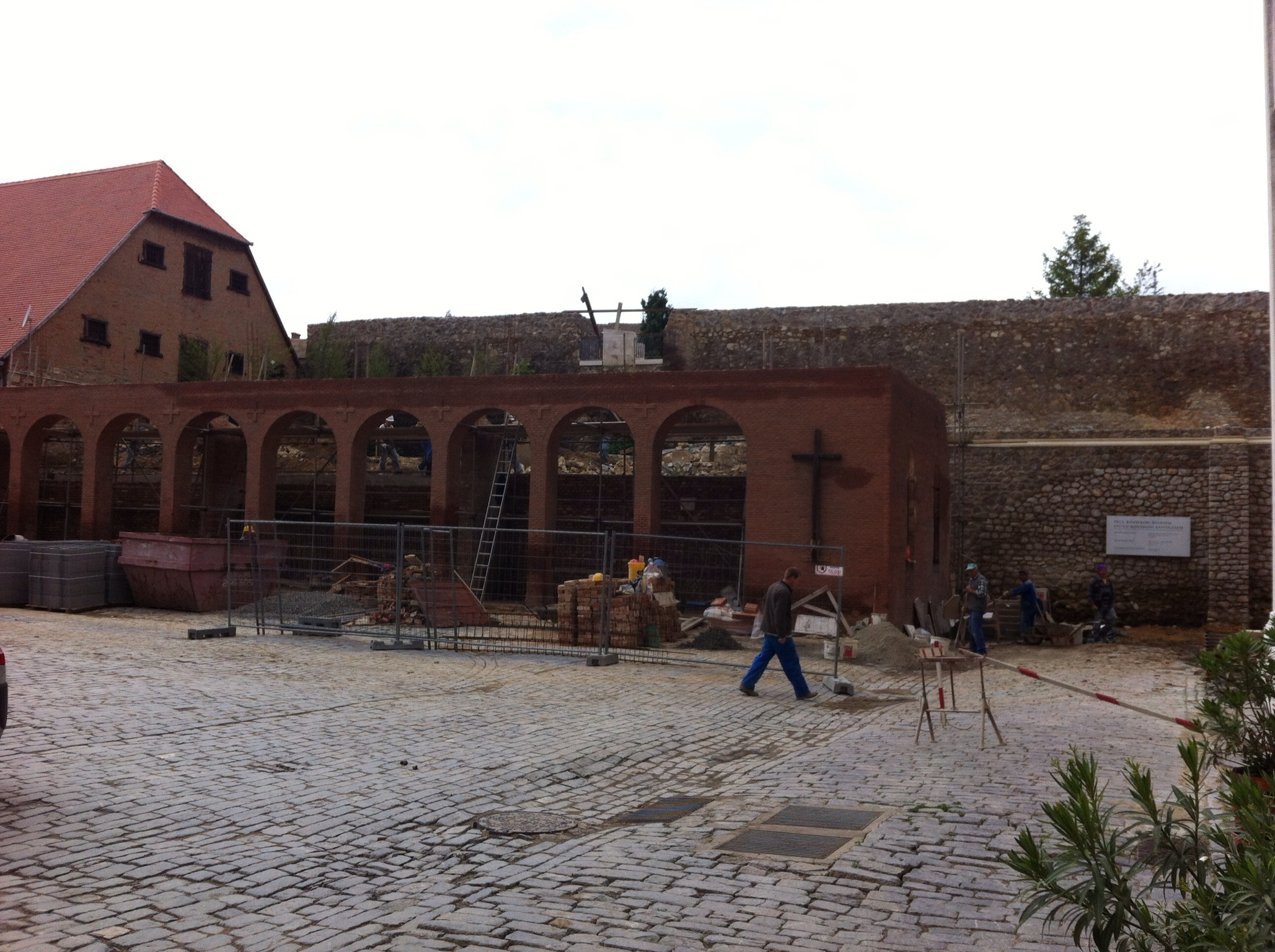 Reconstruction works on Medival University of Pecs, Hungary (2013)